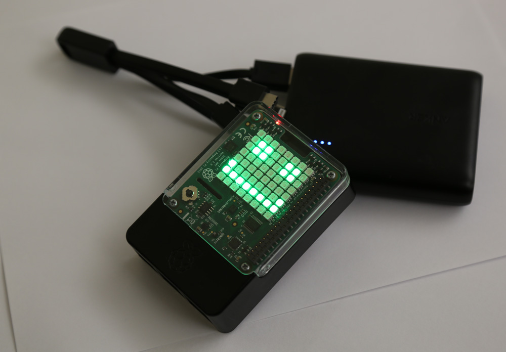 SMILE Plug on Raspberry Pi with Pi Sense Hat